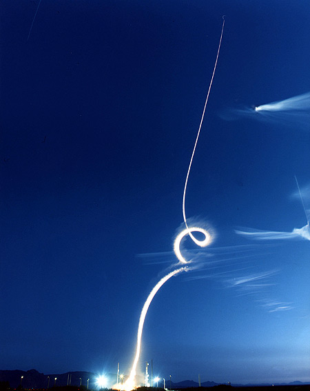 Post-Launch Maneuvers The Missile Defense Agency's THAAD System constitutes the upper tier of a two-tiered defense against tactical ballistic missiles, and provides broad area coverage against threats to military forces and critical assets, such as population centers and industrial resources. THAAD consists of four segments defined as missile round, launcher, Battle Management/Command, Control, Communications, and Intelligence (BM/C3I) and radar. This weapons system is designed to perform its mission in a centralized, decentralized, or autonomous mode. Deployable to theaters of operation using strategic military air, ground and ship transport, this weapon system provides off-the-shelf technology in a mobile configuration